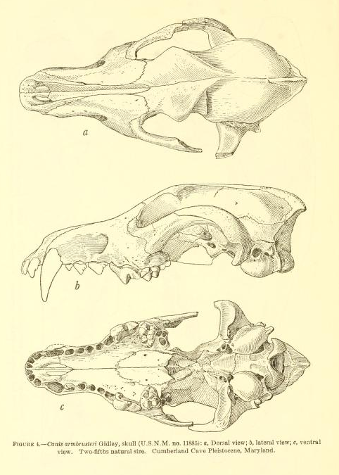 Canis ambrusteri skull